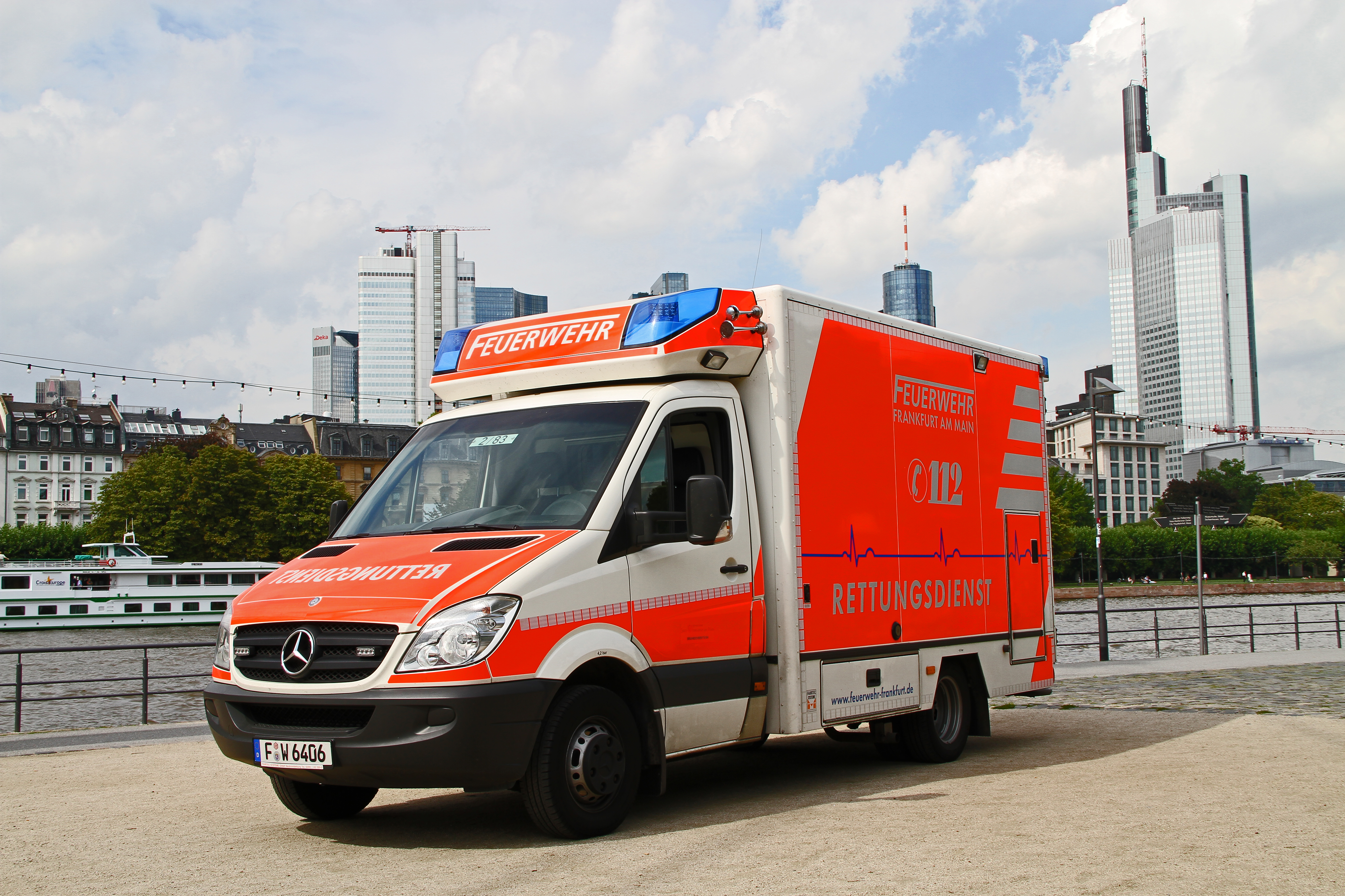 Emergency ambulance (Typ-C) from Fire Department Frankfurt.